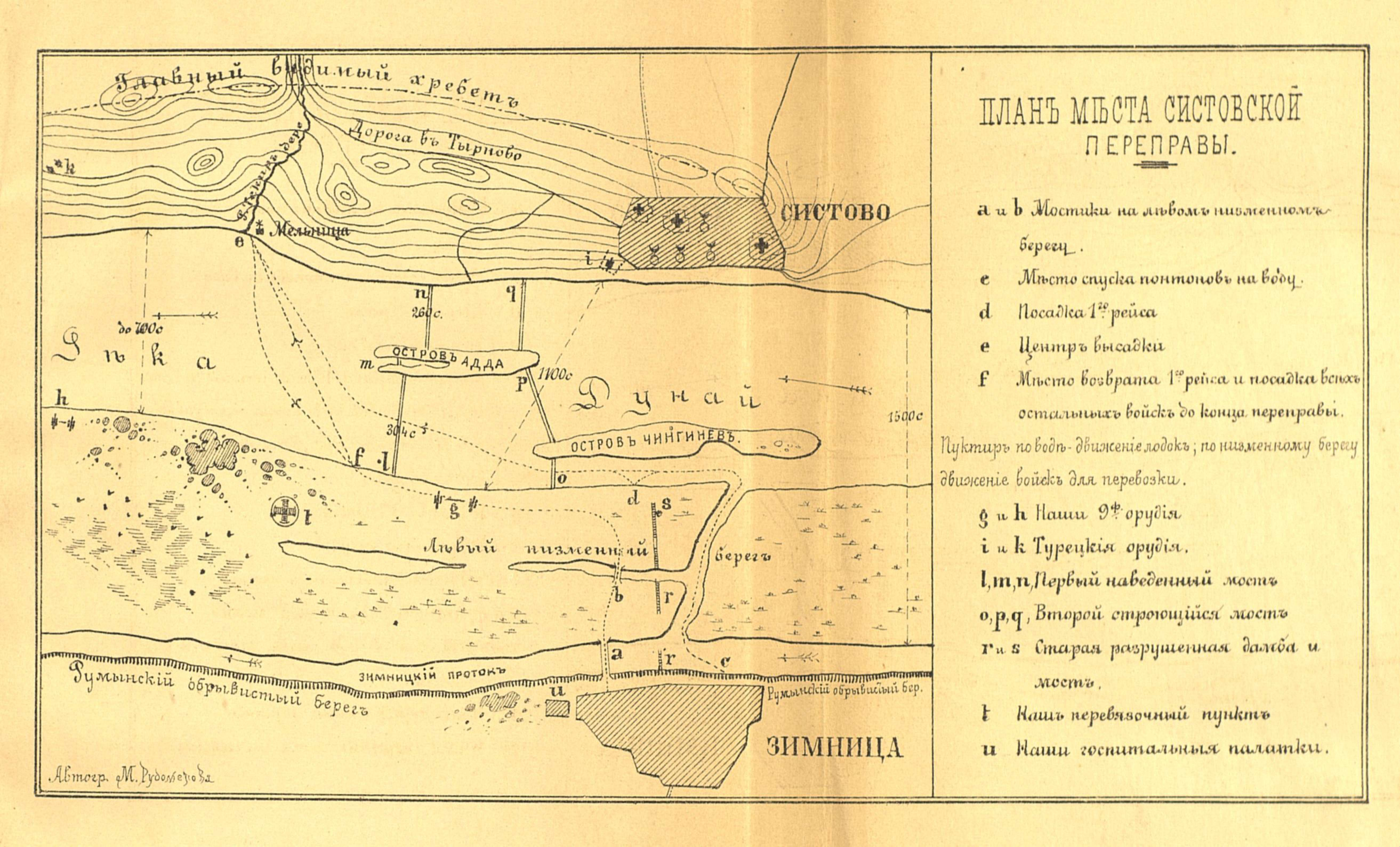 Plan of Systev crossing. From the book "20 months in the force field. Vol. 1" by V. Krestovsky